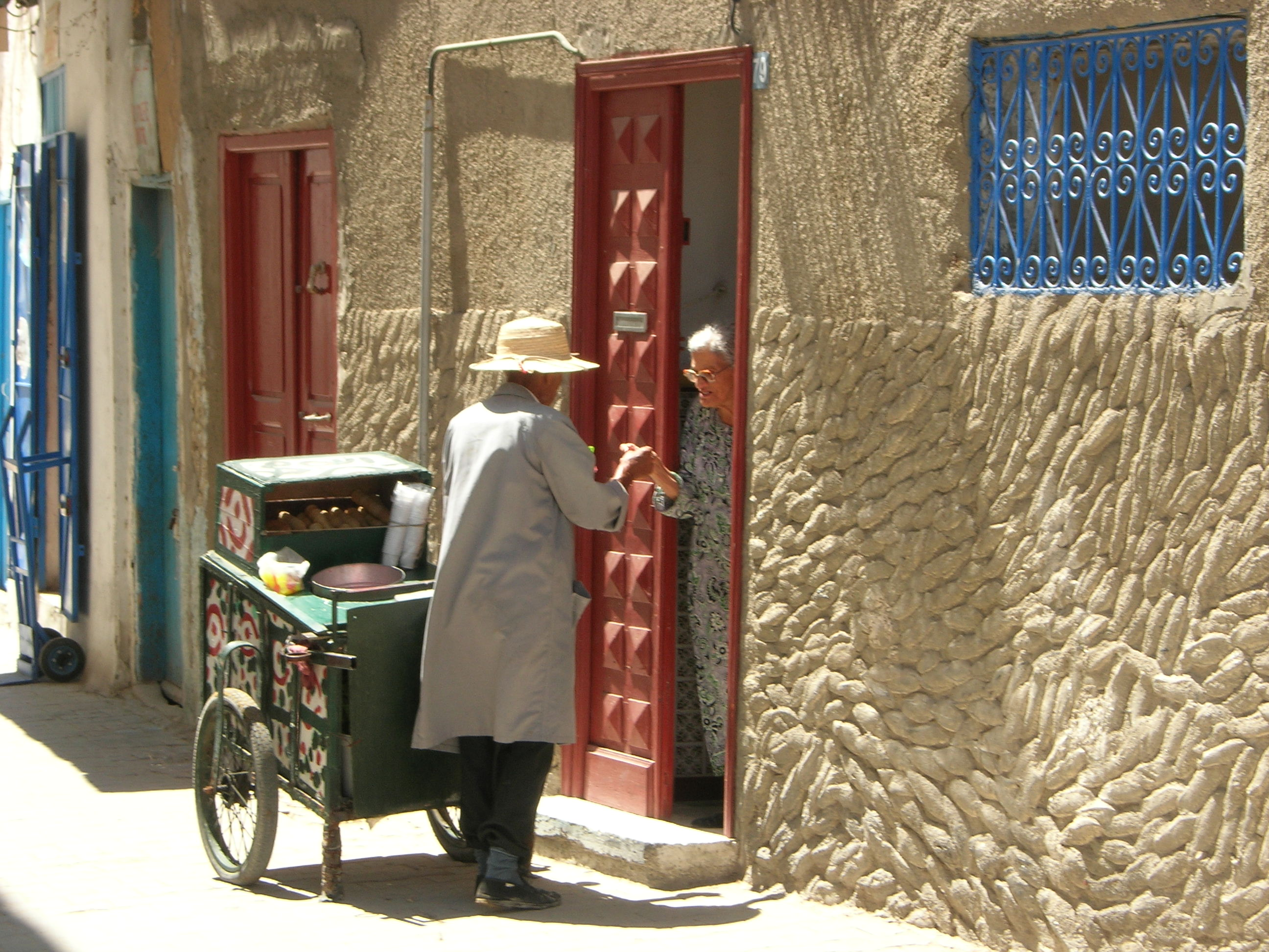 This is an image of food from Tunisia